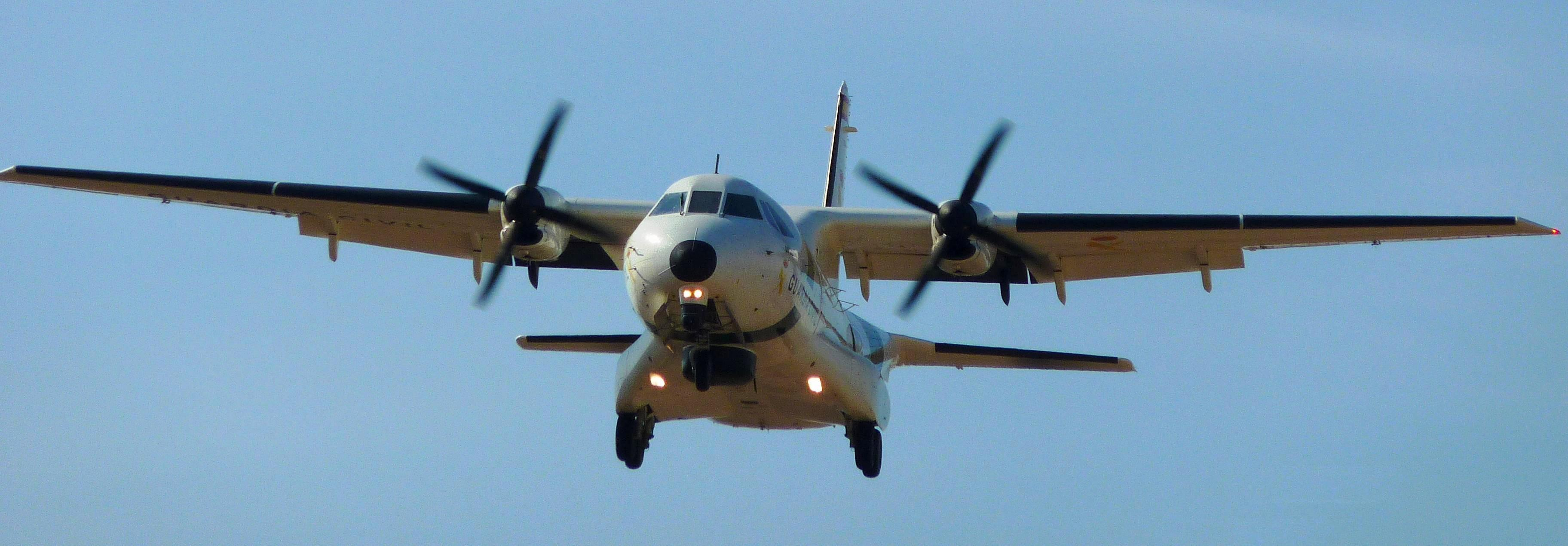 Spanish Guardia Civil CN-235.